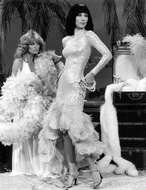 Photo of Farrah Fawcett and Cher from the television program The Sonny and Cher Show. Gown designs by Bob Mackie.